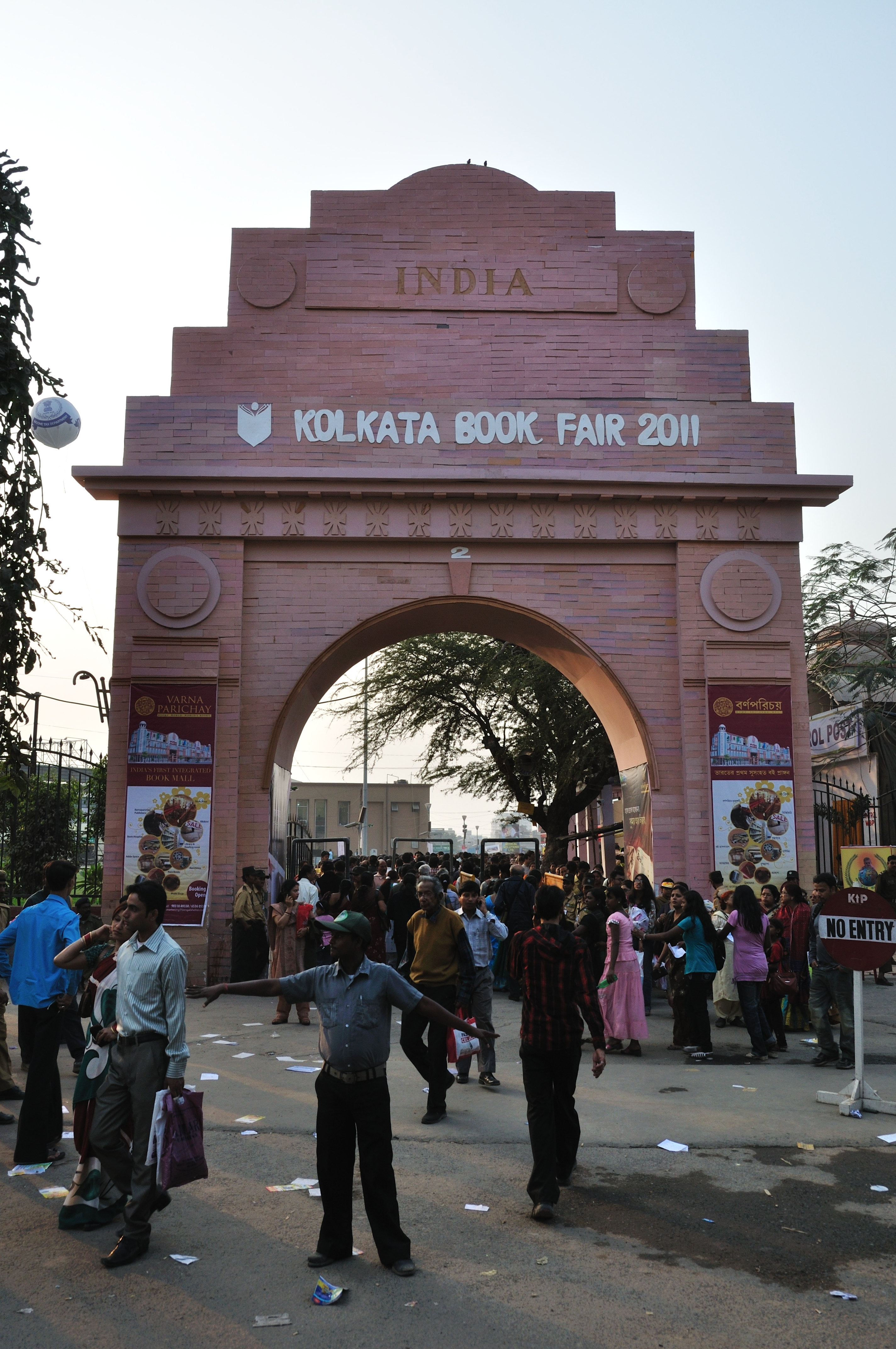 The Kolkata Book Fair (Old name: Calcutta Book Fair in English, and officially Kolkata Boimela or Kolkata Pustakmela,is a winter fair in Kolkata. It is a unique book fair in the sense of not being a trade fair - the book fair is primarily for the general public rather than whole-sale distributors. It is the world's largest non-trade book fair, Asia's largest book fair and the most attended book fair in the world. In 2011, the fair took place at ‘Milan Mela’ ground from 26th january to 6th February, opposite of ‘Science City’, Kolkata.